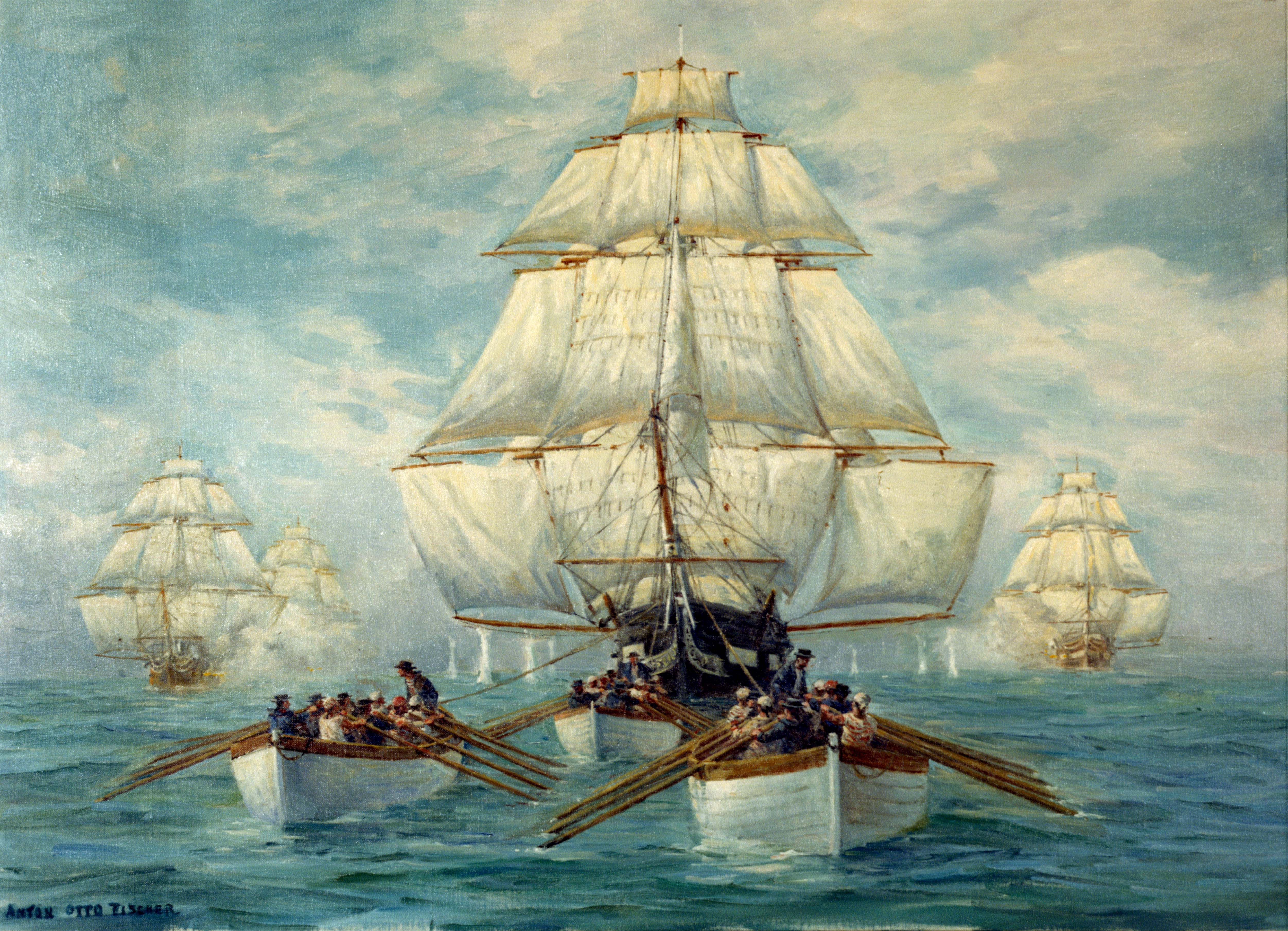 Painting depicting the boats of USS Constitution towing her in a calm, while she was being pursued by a squadron of British warships, 18 July 1812.